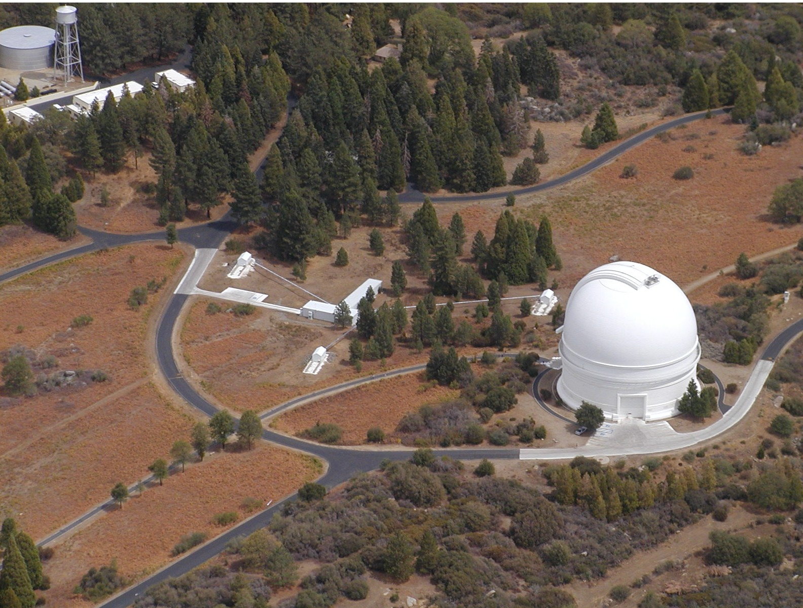 Aerial view of the Palomar Testbed Interferometer